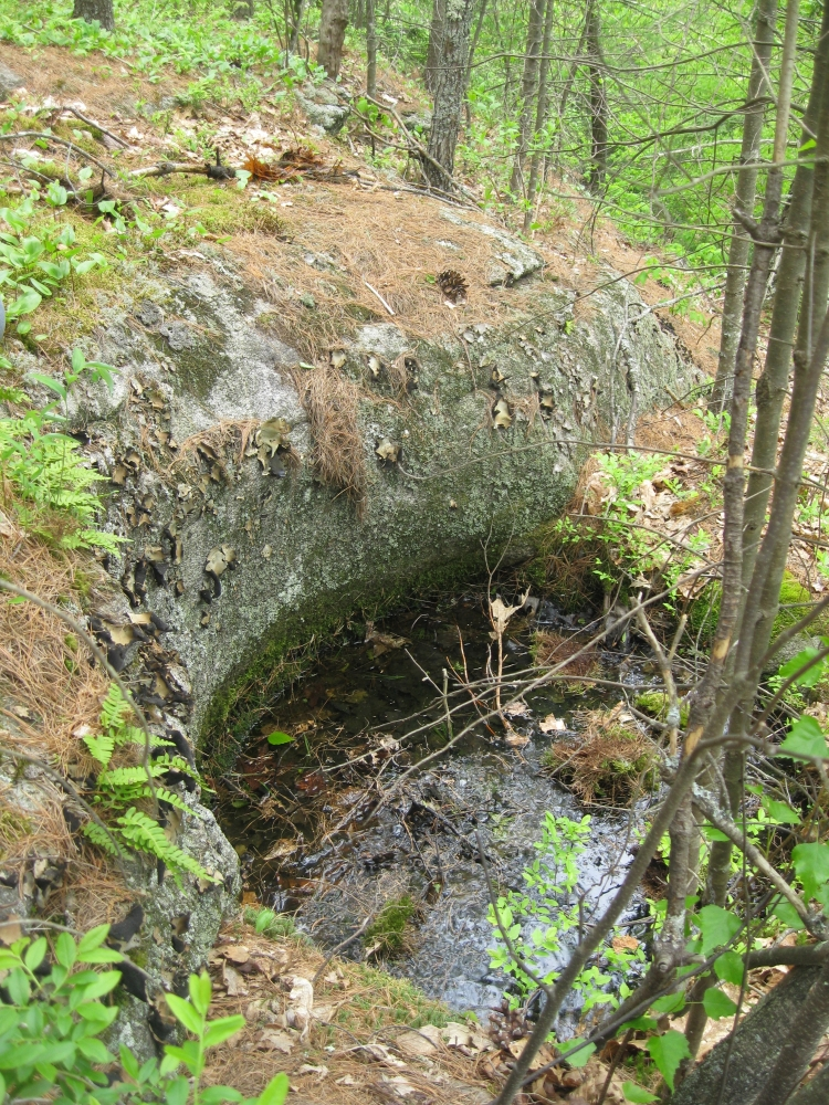 Small Glacial Pothole at Plummer's Ledge Natural Area. Wentworth, New Hamphire, USA